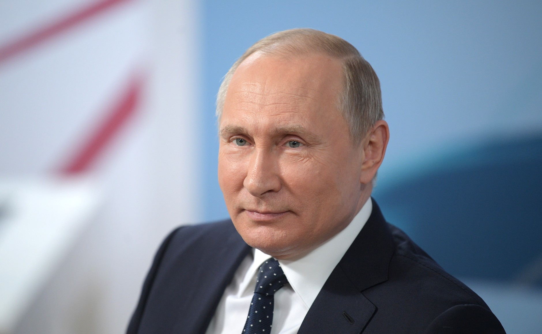 Vladimir Putin met the winners and finalists of "Russia is a Country of Opportunities" and spoke at the final event.